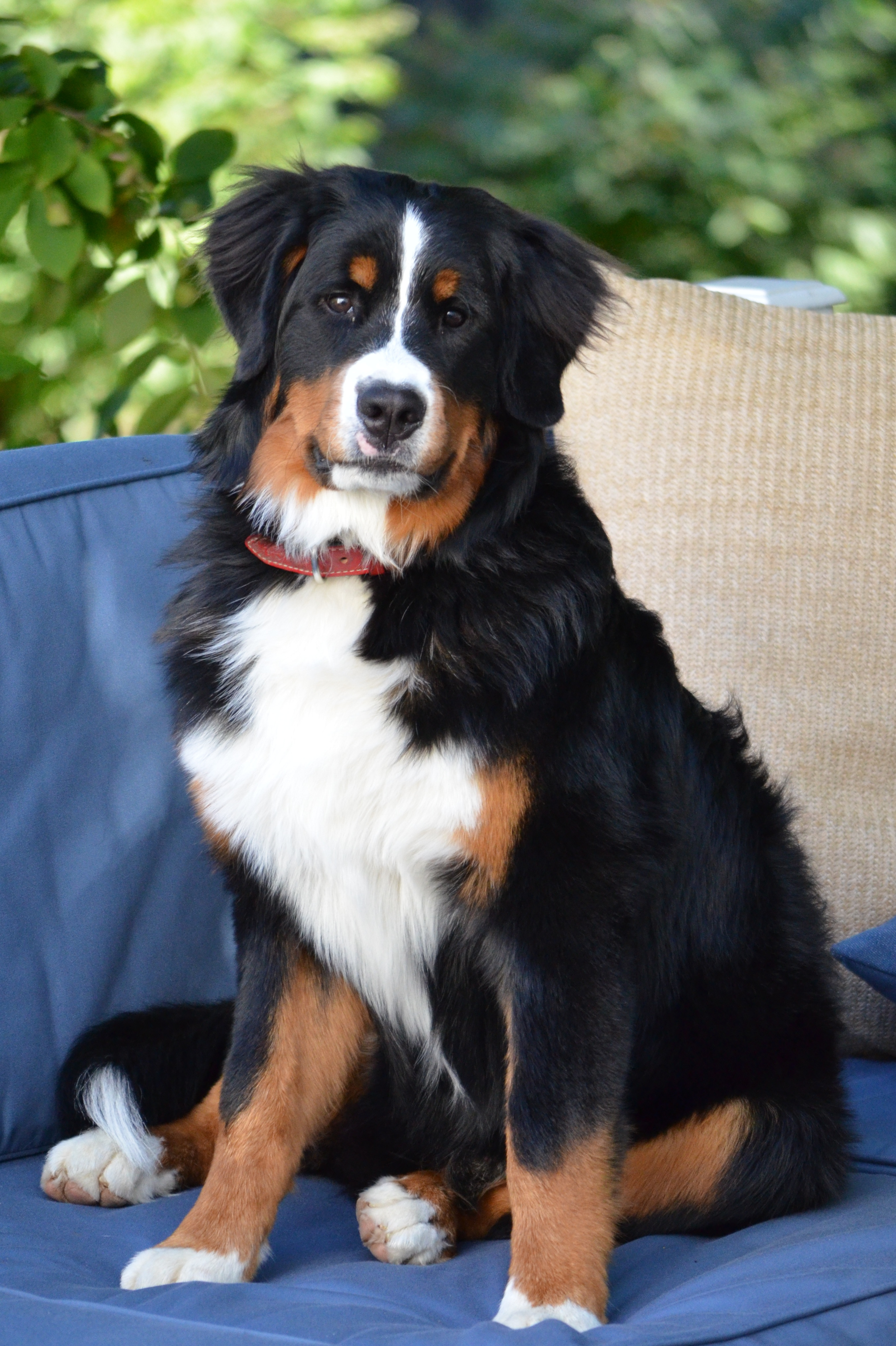 9 months old, 60 lbs (eventually approximately 100 lbs)